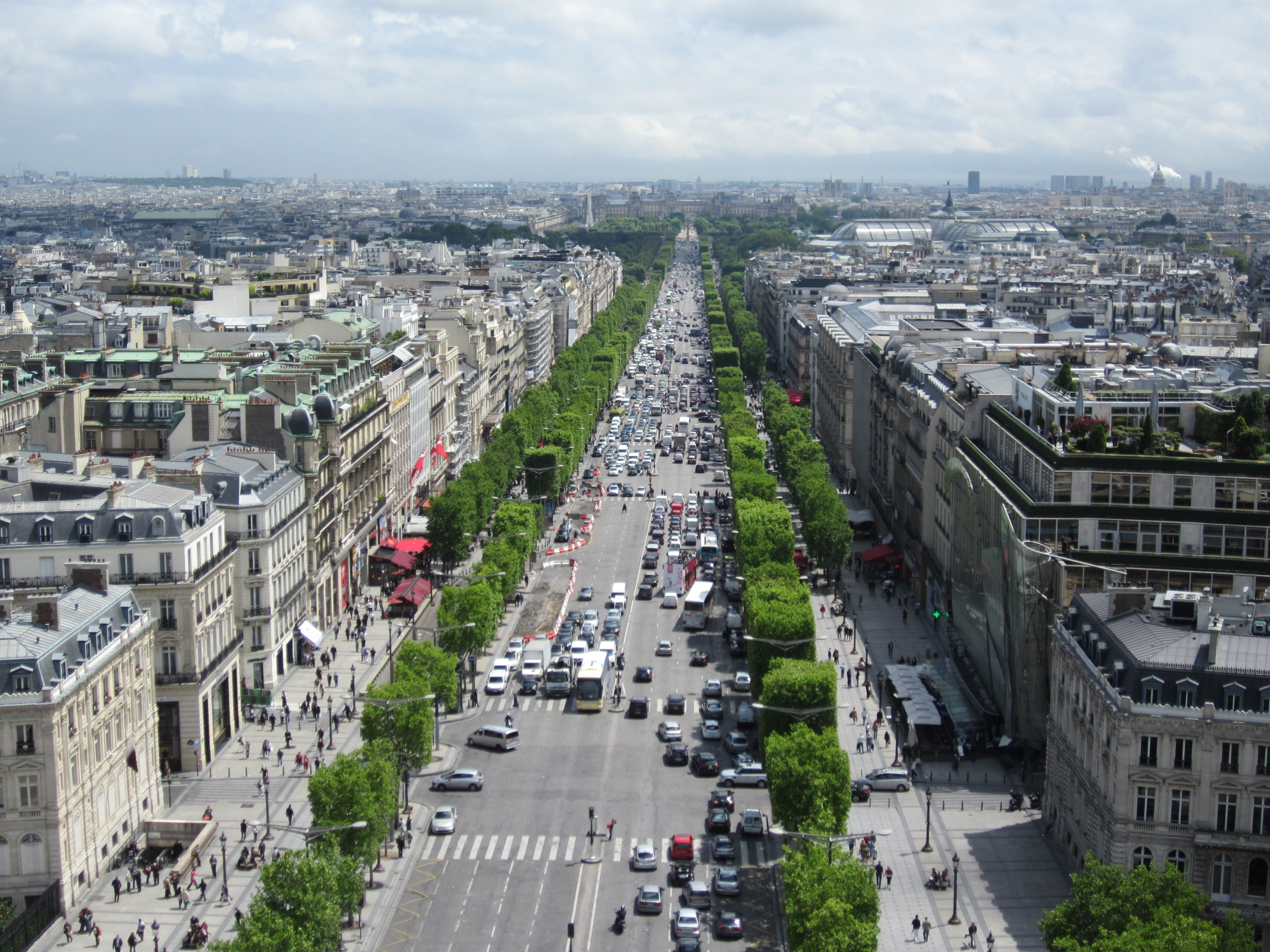 A view of the Champs-Élysées from the Arc de Triomphe